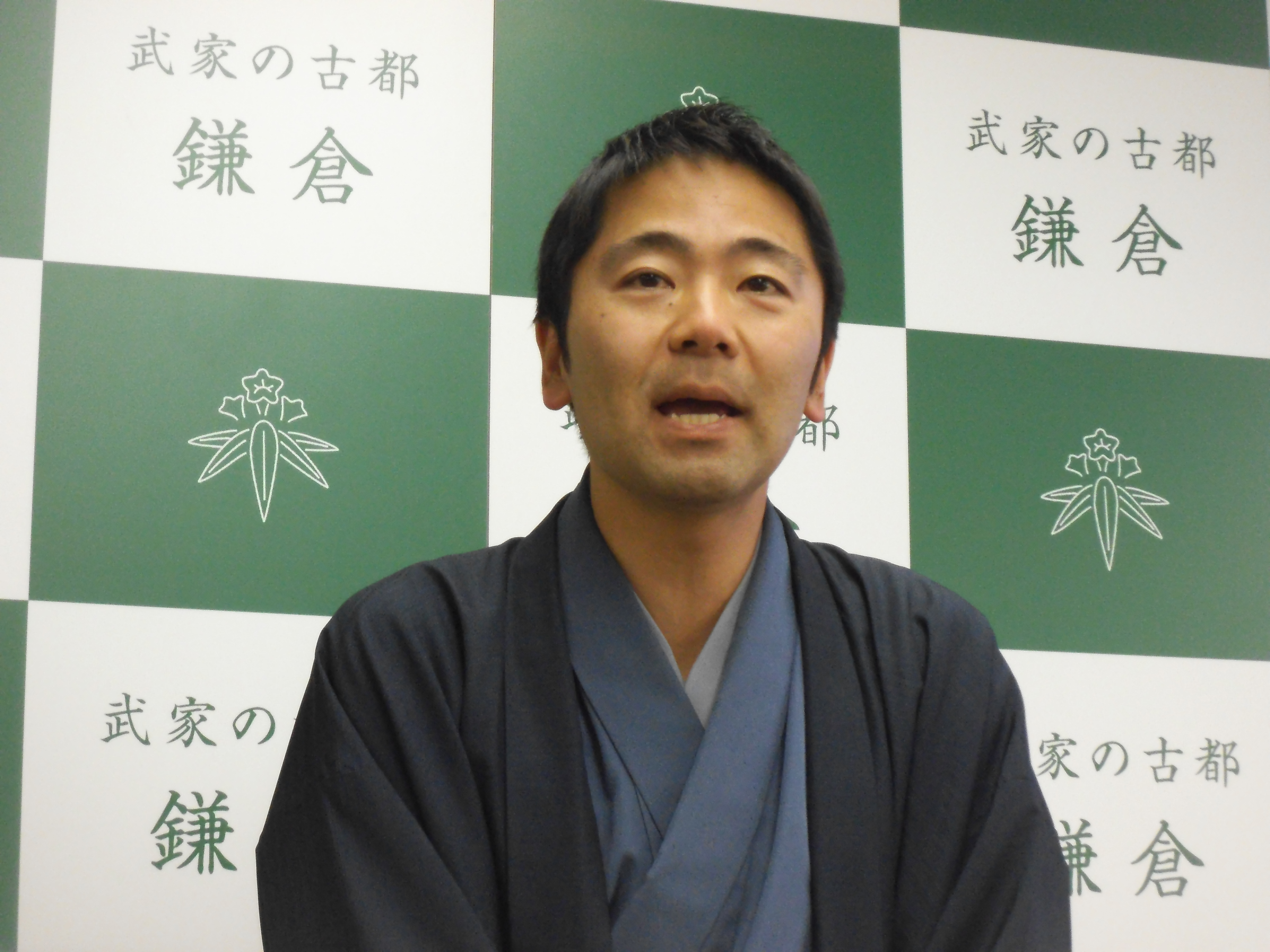 Takashi Matsuo Mayer of Kamakura-city,Kanagawa,Japan